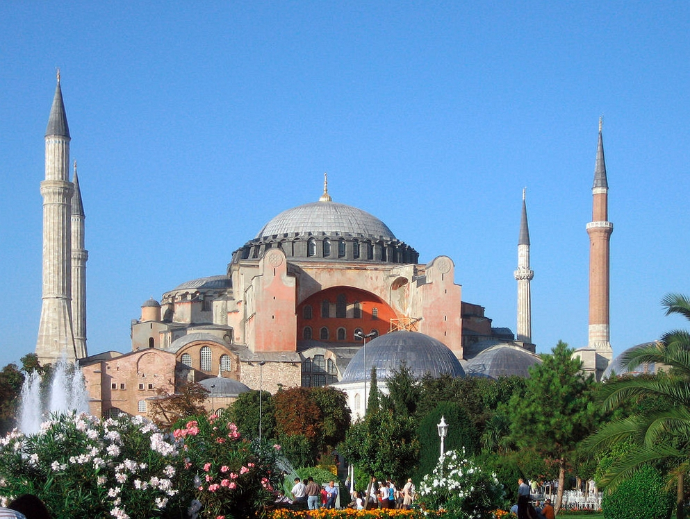 Picture of the Aya Sofya in Constantinople, European Turkey. From Flickr. See